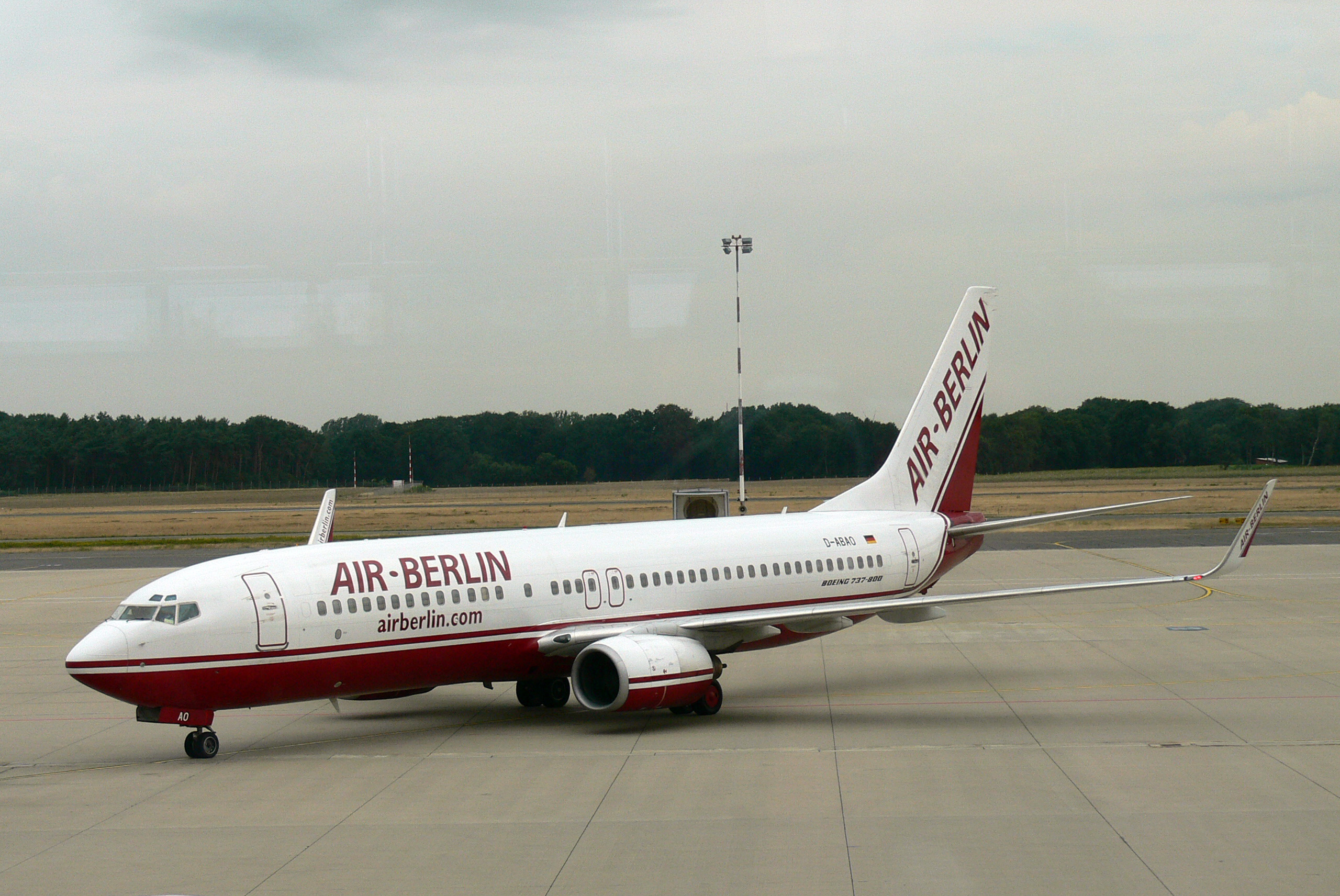 An Air Berlin plane at Flughafen Muenster-Osnabrueck in Germany.